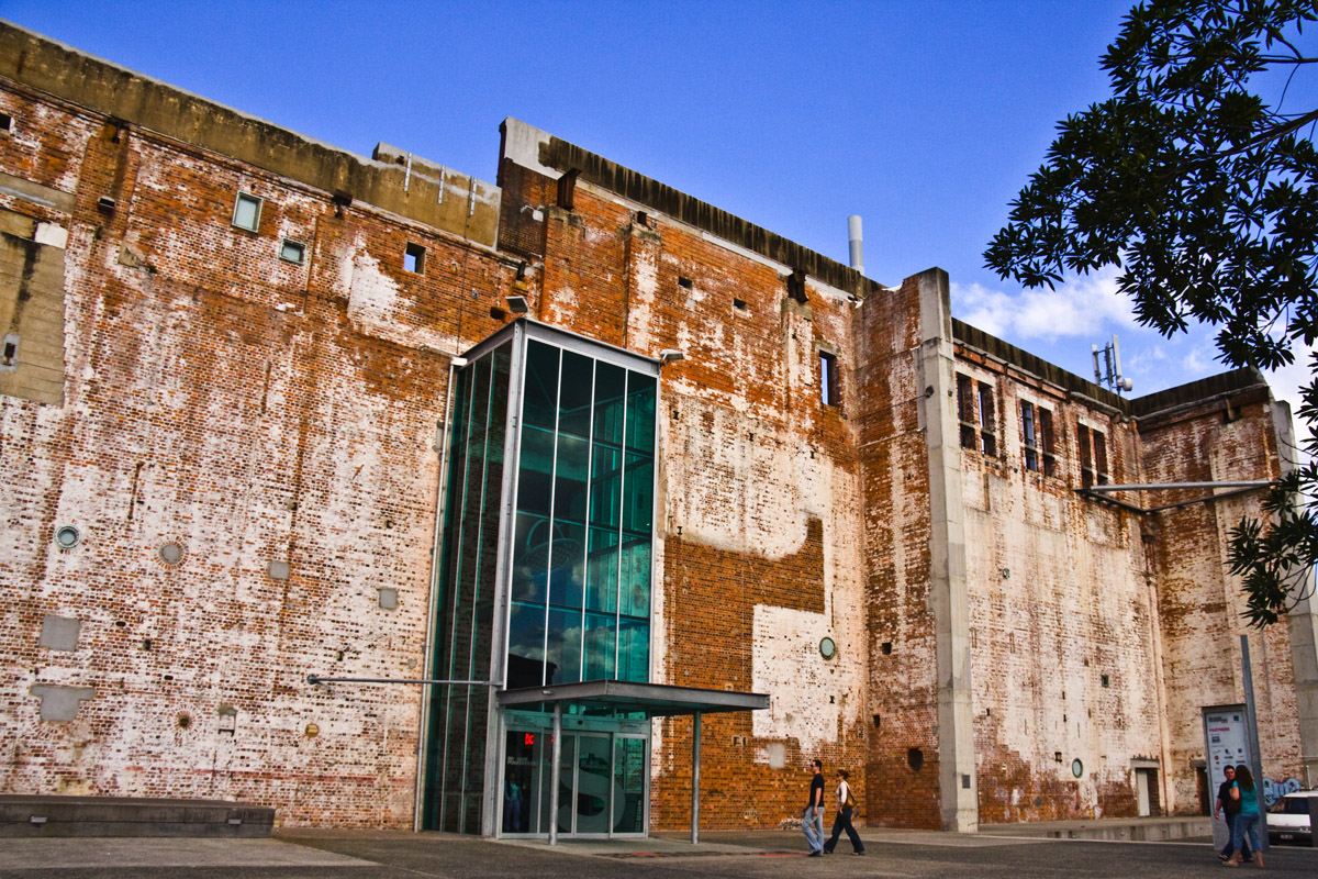 High-contrast/saturation image of the Powerhouse in Brisbane. I think that I need to work on framing and composing :(